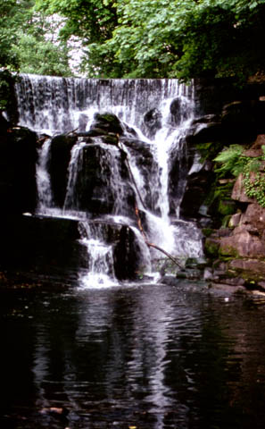 Falls on the River Clydach at Longford These falls were formerly the site of a large waterwheel used to power the old Neath Abbey Ironworks that were situated below the falls.